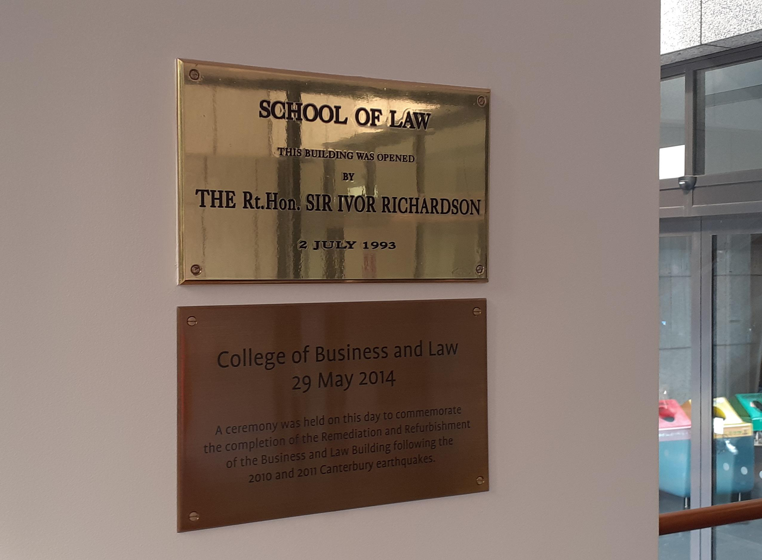 Commemoration plaque for the opening of the Business and Law building at the University of Canterbury, dated 1993, with reference to Sir Ivor Richardson.